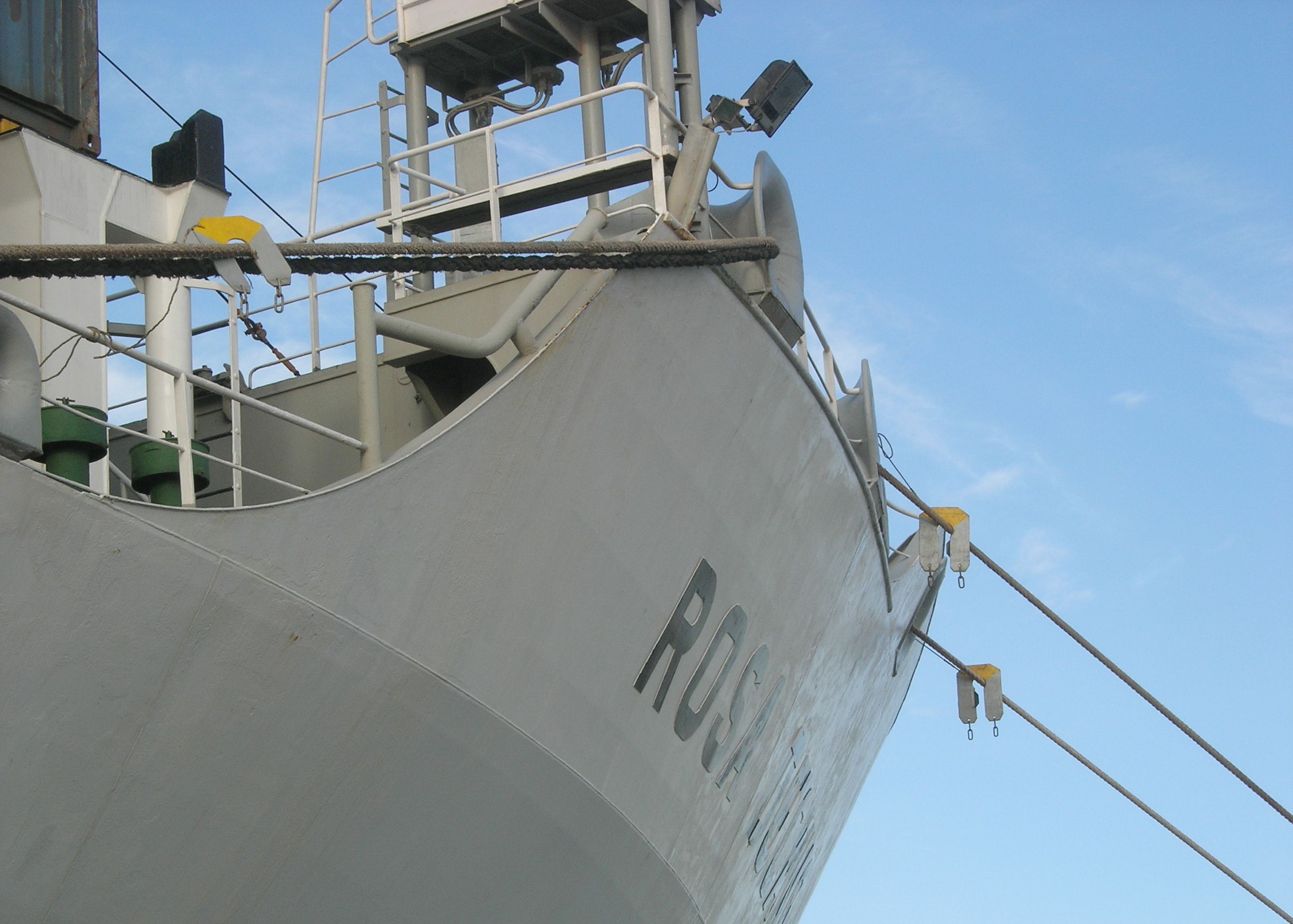 The MV Rosa Delmas (previously named Rosa Tucano) CMA-CGM's RoRo/Containership Ice Class. La Pallice harbour, La Rochelle, France